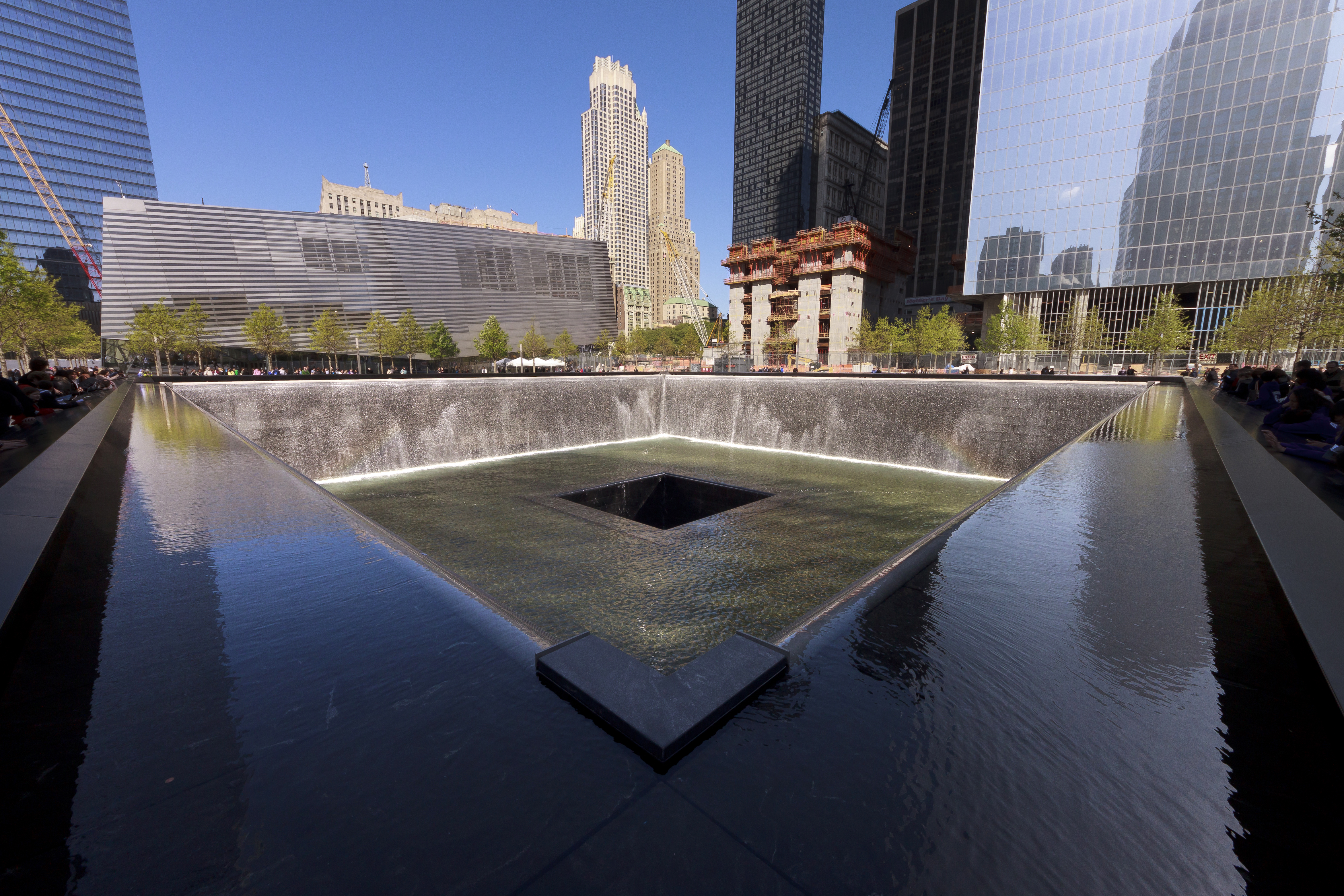 View across the south pool of the National September 11 Memorial in New York City (USA) towards the adjacent National September 11 Memorial Museum.